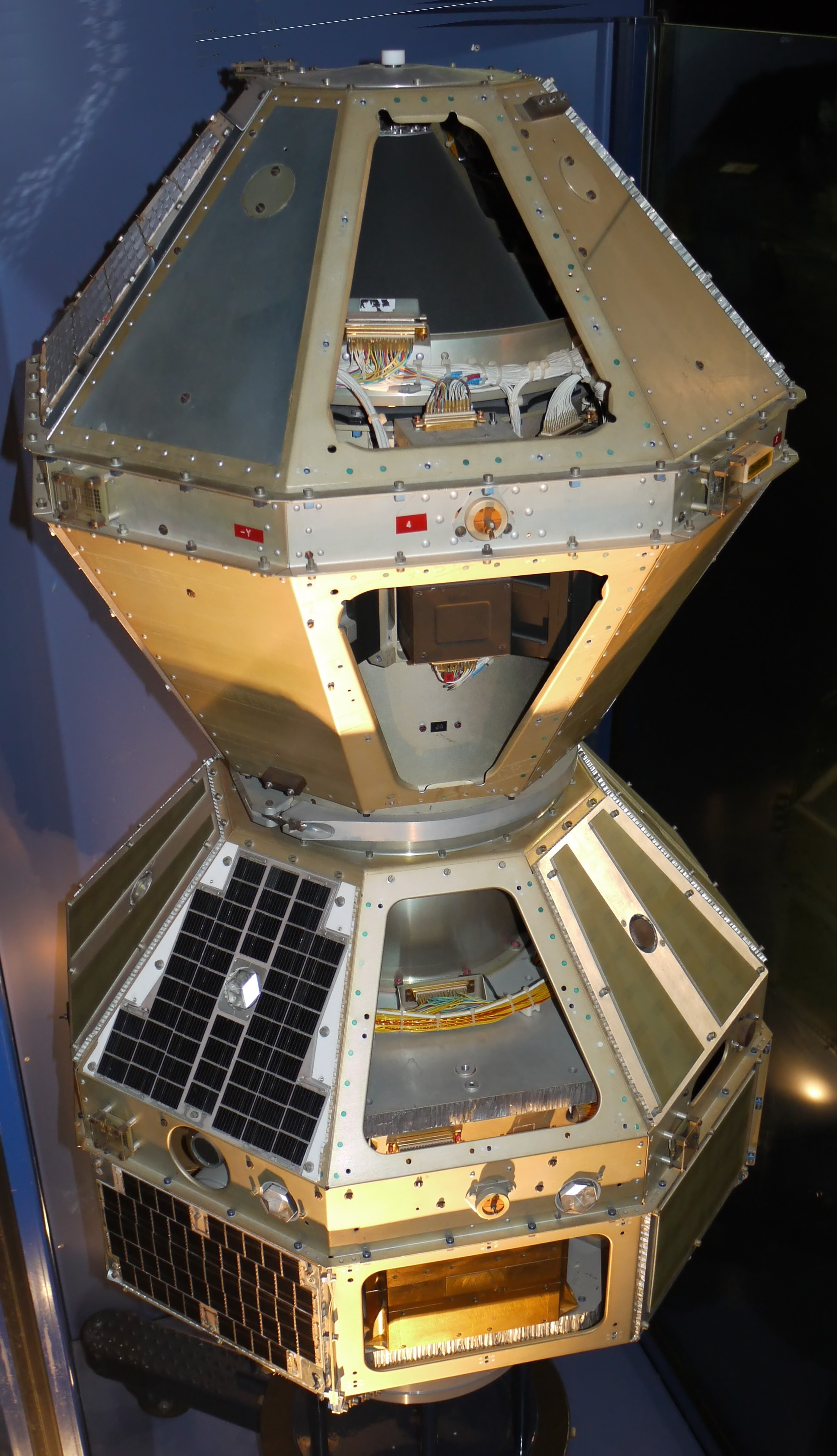 Mockup of the french research satellite Castor and Pollux (1975), Museum of Air and Space Paris, Le Bourget (France)